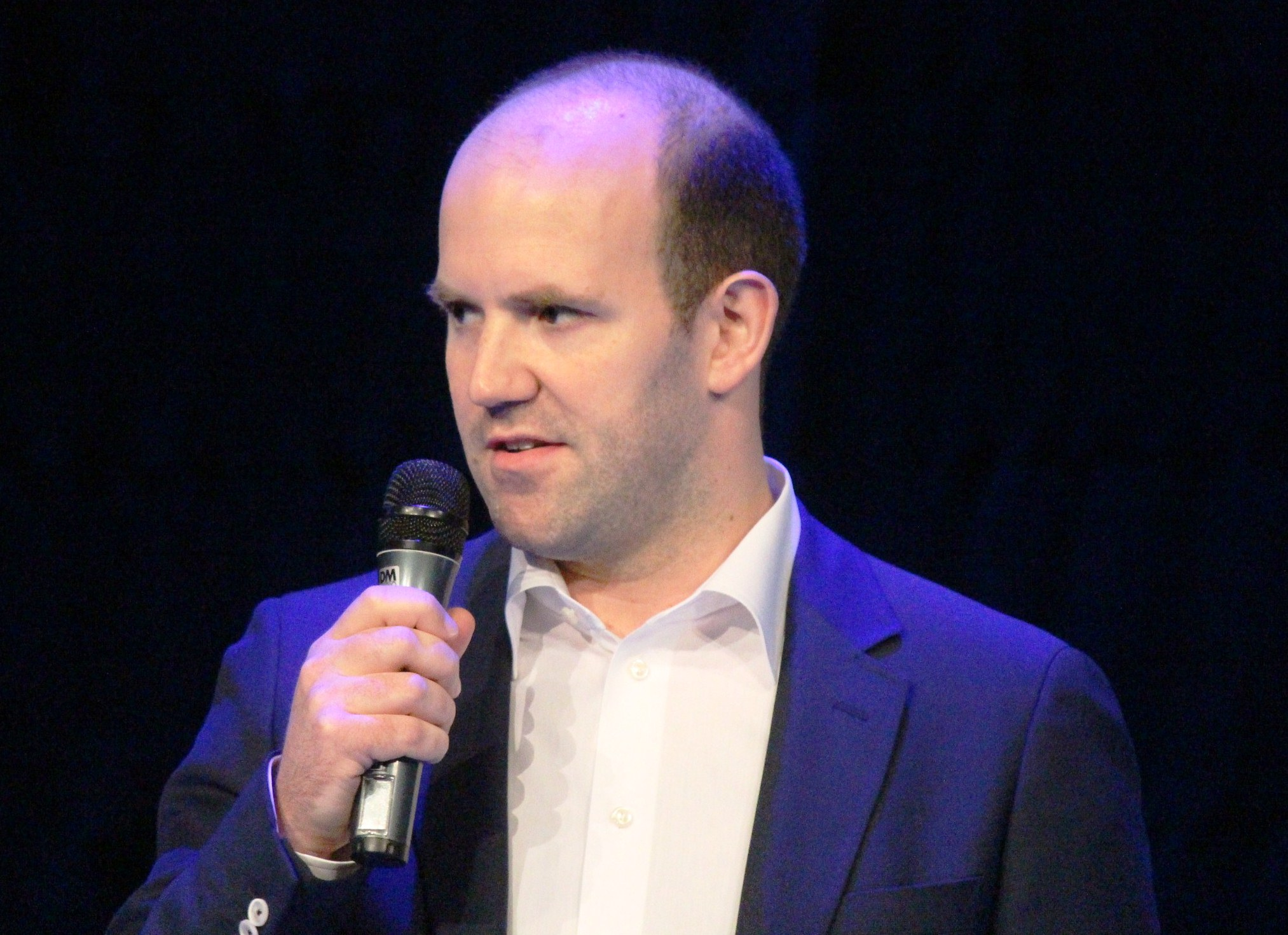 Eben Upton at the event Internetdagarna, Stockholm, Sweden November 25 2014 at Stockholm Waterfront Congress Centre